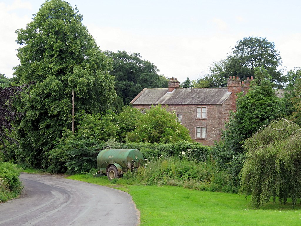 Photograph of Salkeld Hall, Little Salkeld, Cumbria, England